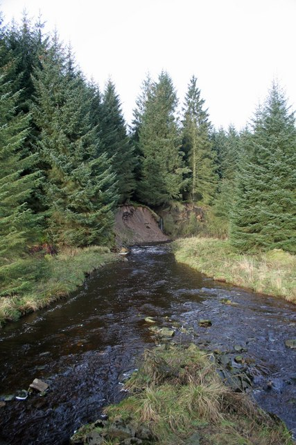 Black Lyne The Black Lyne river seen from the bridge near Blacklyne House.